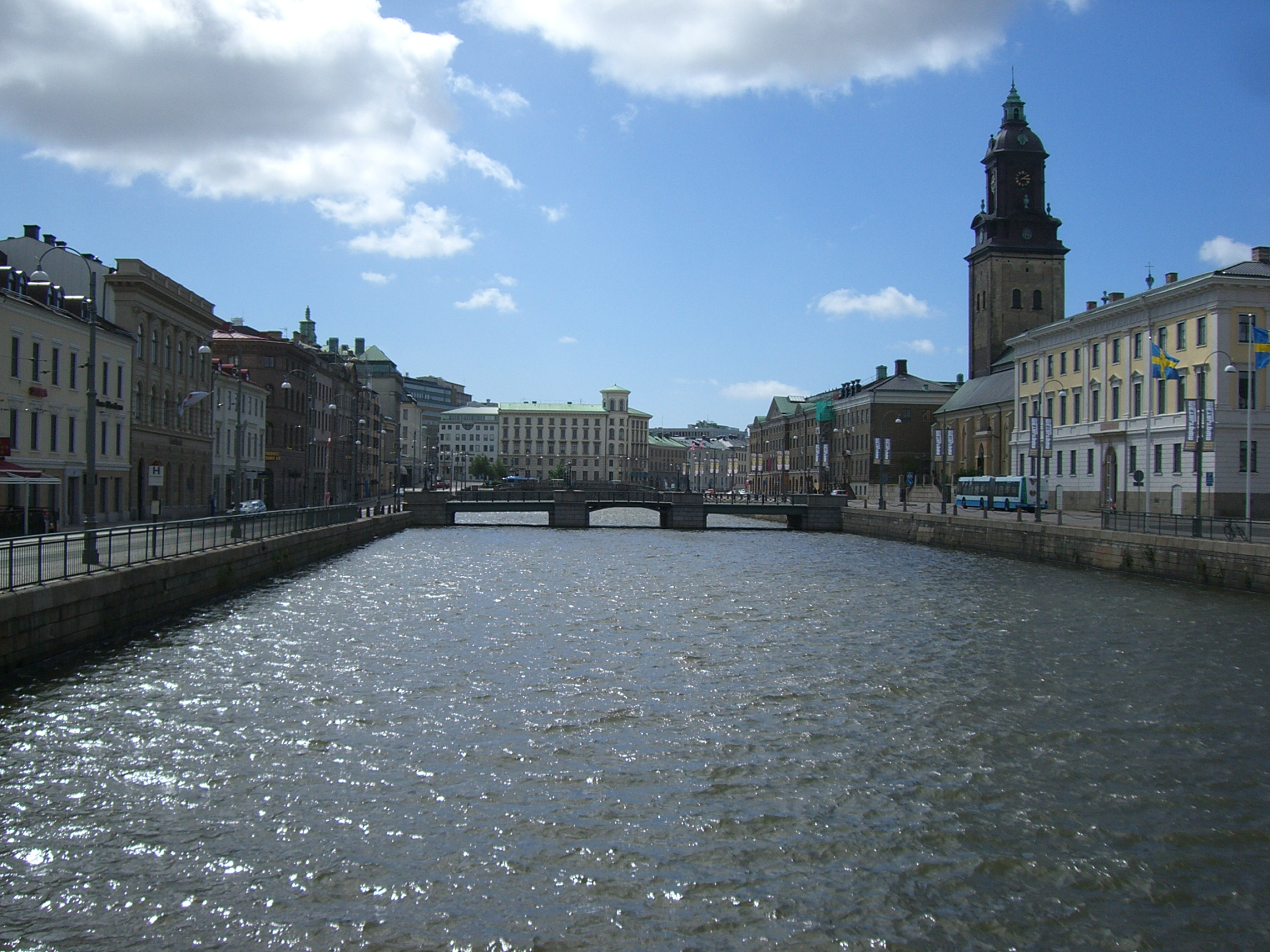 Gothenburg, canal